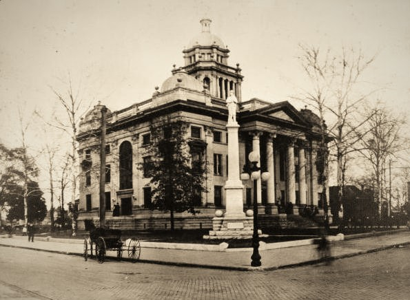 Lowndes County Courthouse around 1915.